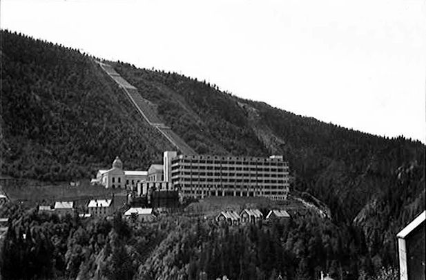 Vemork Hydroelectric Plant at Rjukan, Norway in 1935. In the front building, the Norsk Hydro hydrogen production plant, a Norwegian Special Operations Executive (SOE) team (Operation Gunnerside) blew up heavy water production cells on 27 February 1943 in order to sabotage the efforts of the World War II German nuclear energy project.